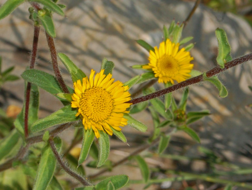 Pallenis spinosa - Genova, Italy